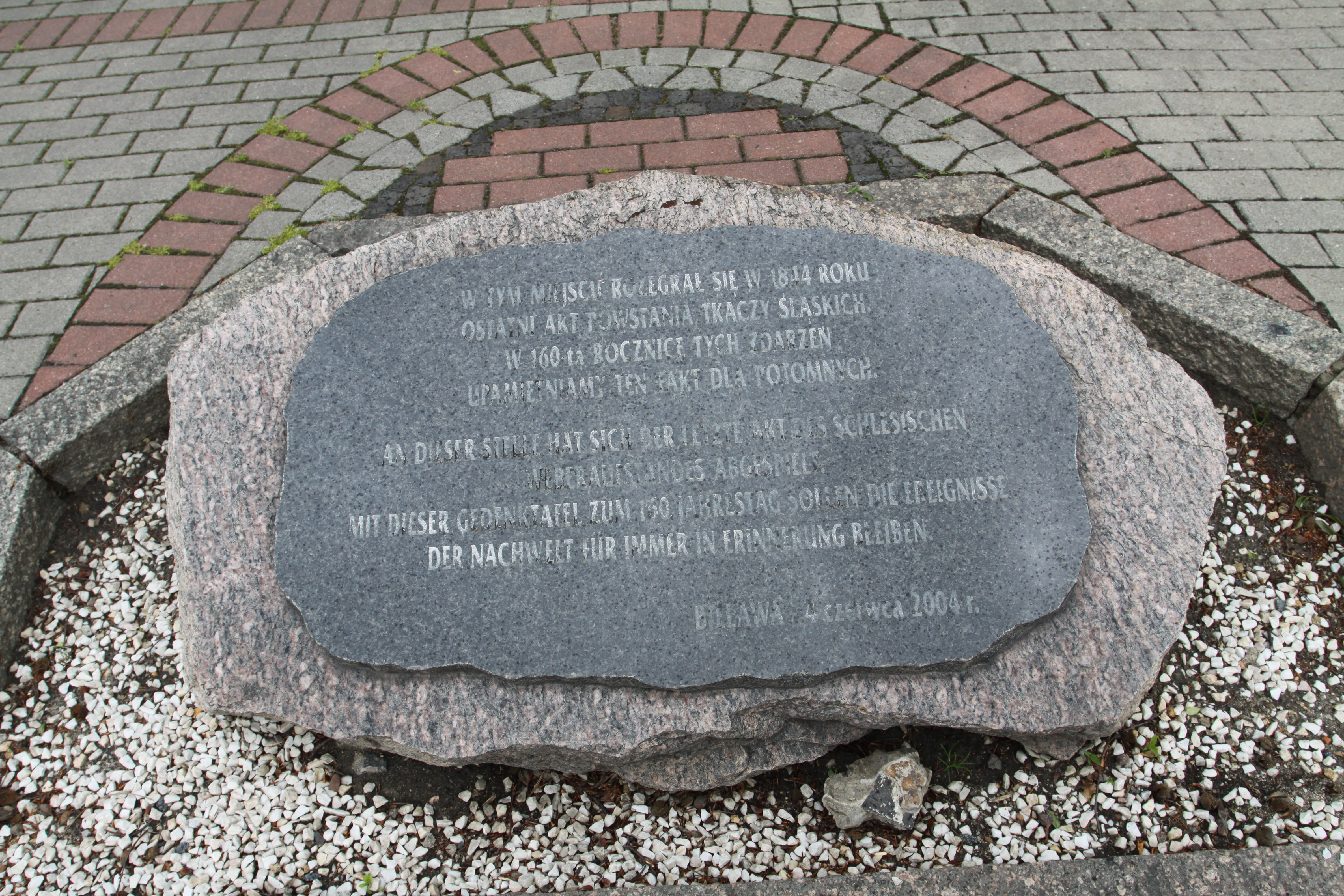 Bielawa, a town in south-western Poland situated in Dzierżoniów County, Lower Silesian Voivodeship - Google Maps - Google Earth